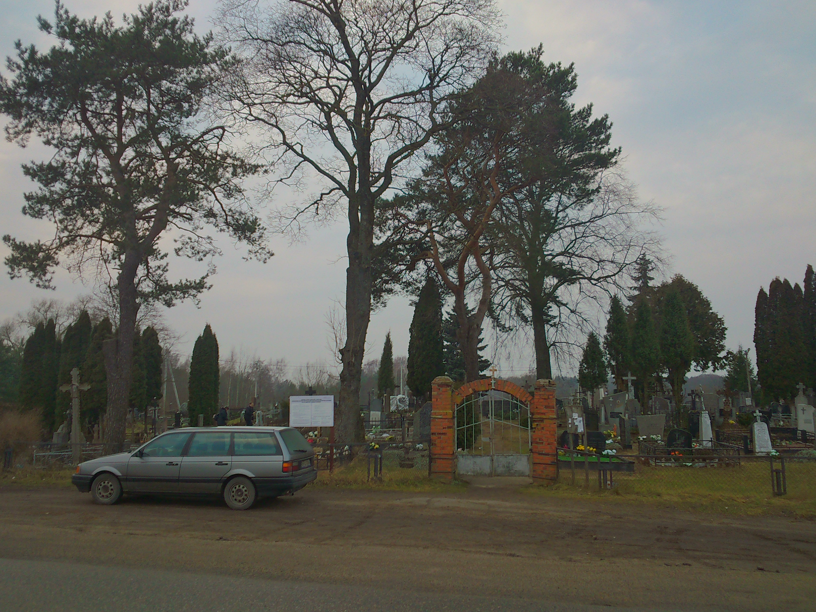 Mančiūnai (Kaišiadorys) cemetery